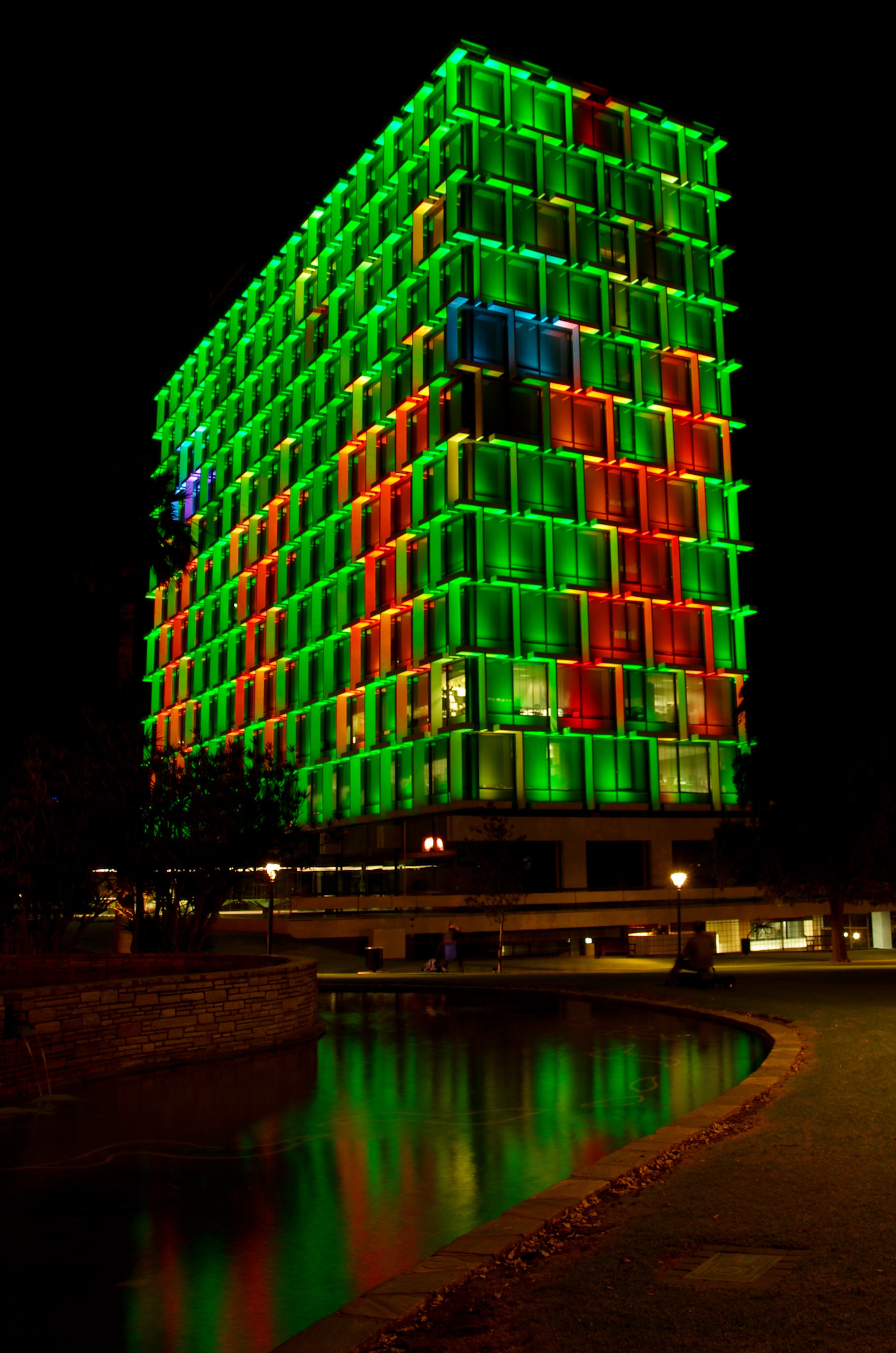 City of Perth building lit at night